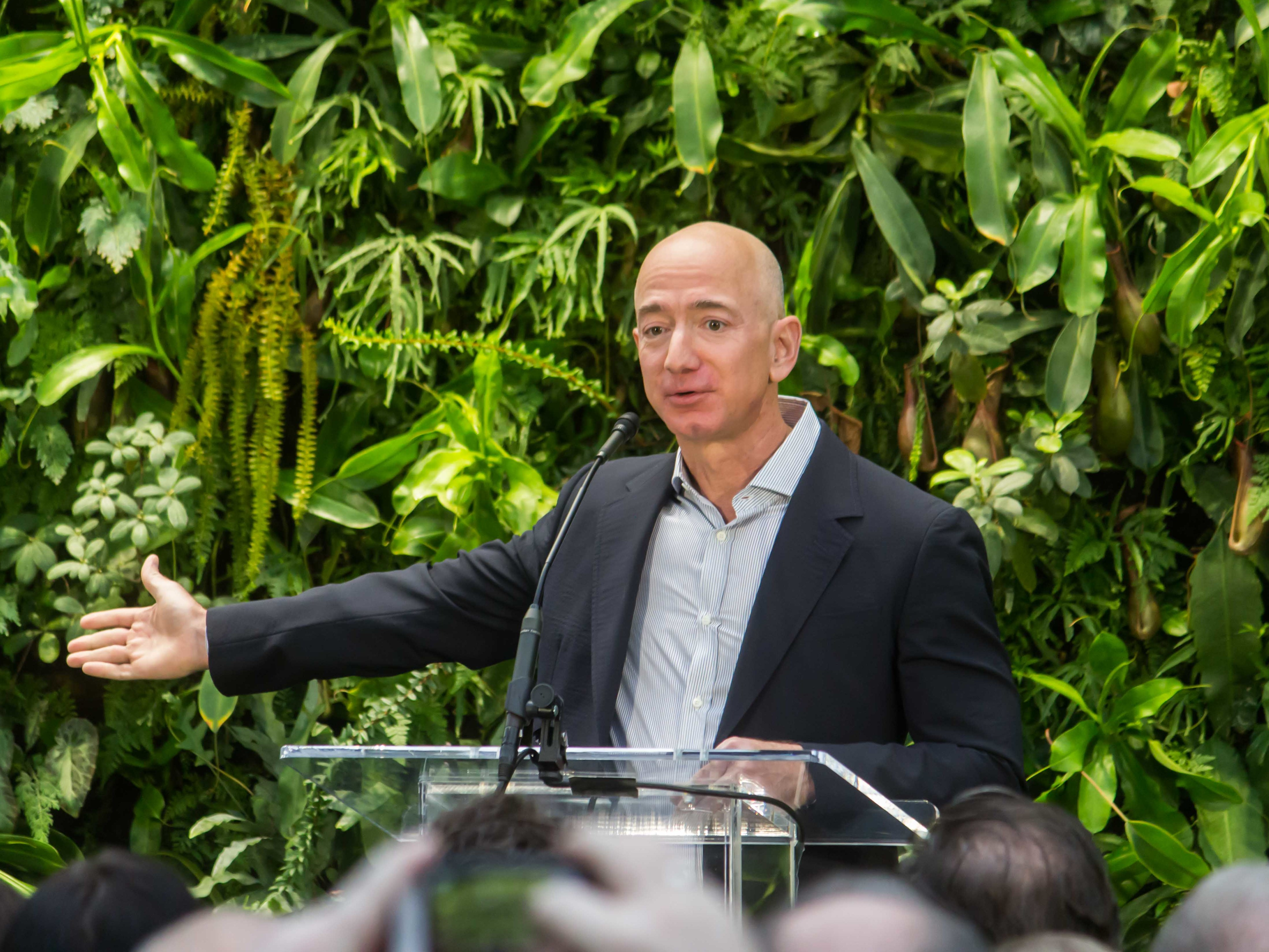 Jeff Bezos at Amazon Spheres Grand Opening in Seattle